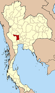 Map of Thailand highlighting Suphanburi province